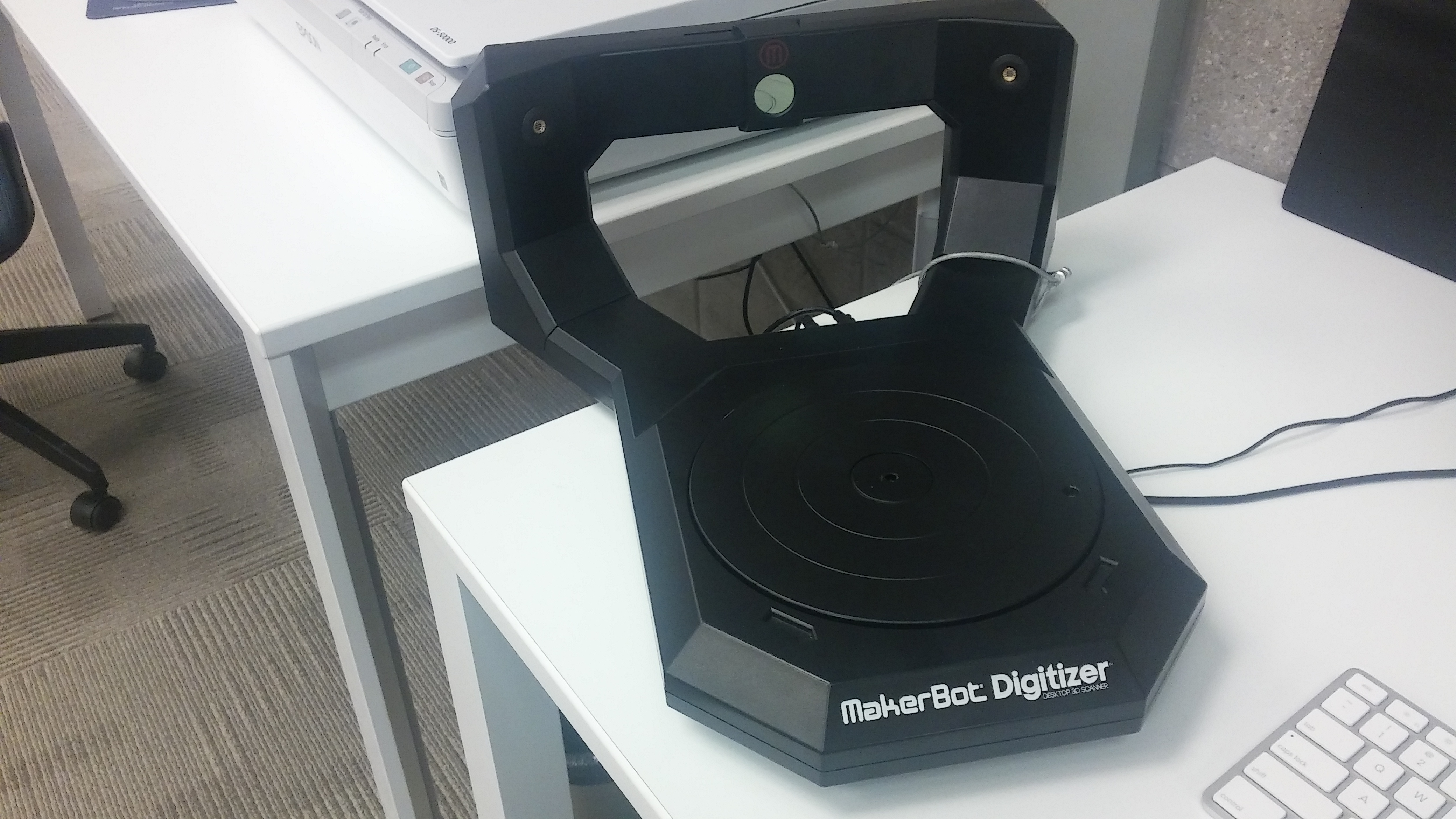 MakerBot Digitizer at University of Toronto Scarborough's library